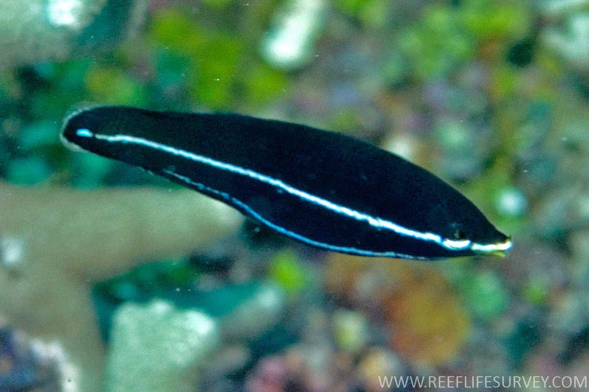 juvenile Oneline Wrasse, Labrichthys unilineatus